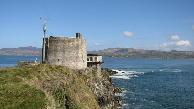 Fort and look out point Round fort and lookout point at Macamish point. Clondallon, County Donegal